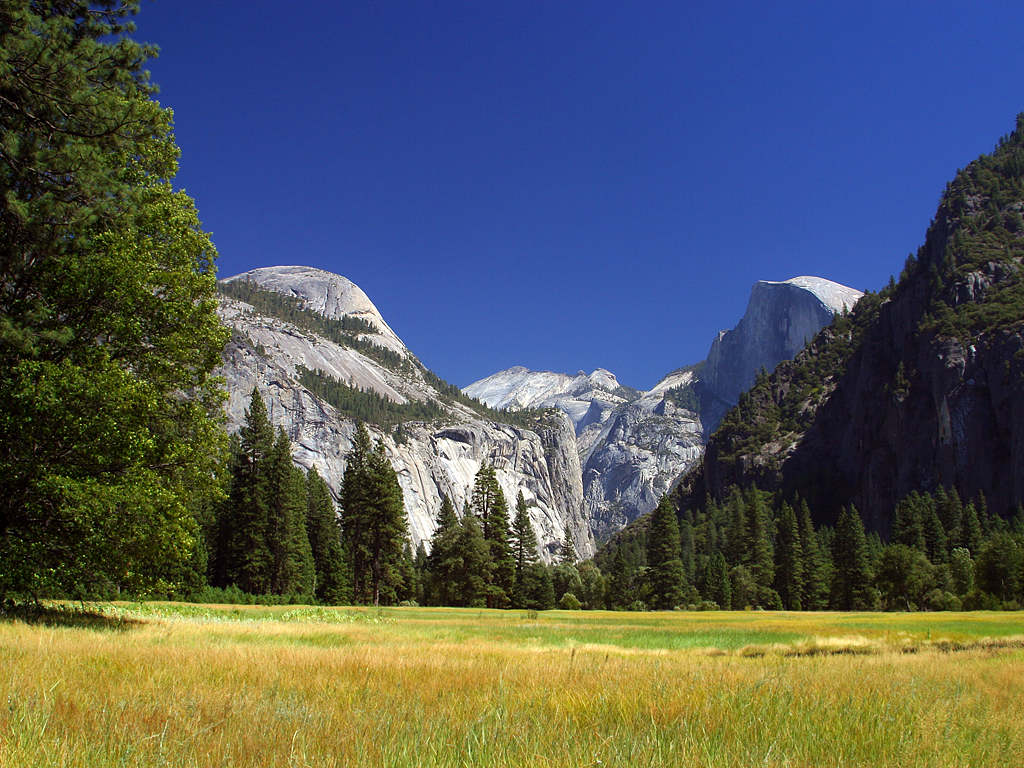 Yosemite valley, California, USA